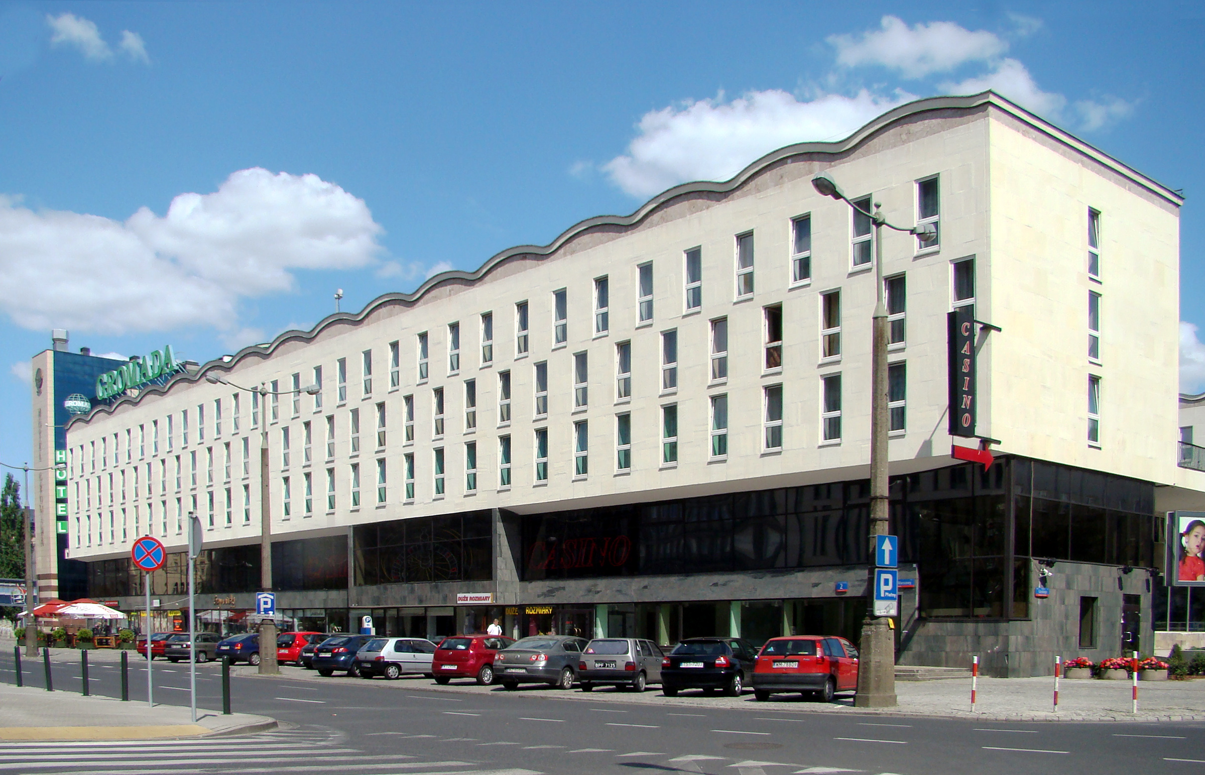 "Peasant's Home" Hotel in Warsaw